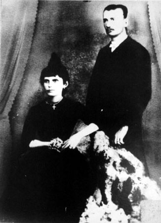 Eleftherios Venizelos and his wife.